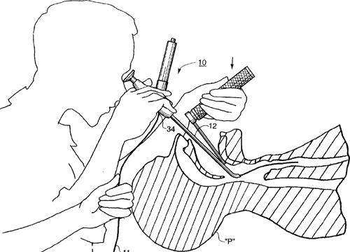 Diagram showing the process of inserting an endotracheal tube